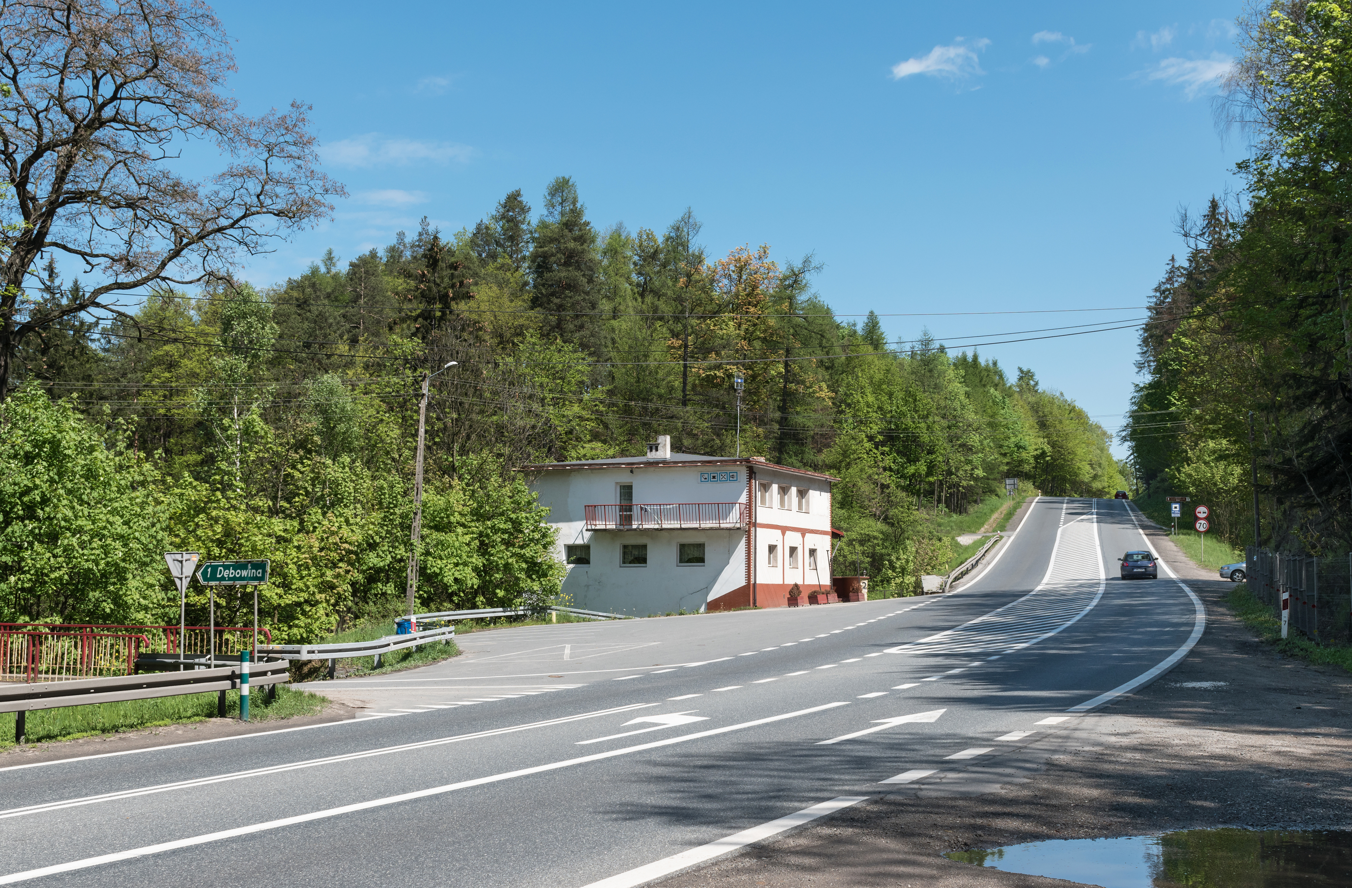 National road 8 in Dębowina (Poland)